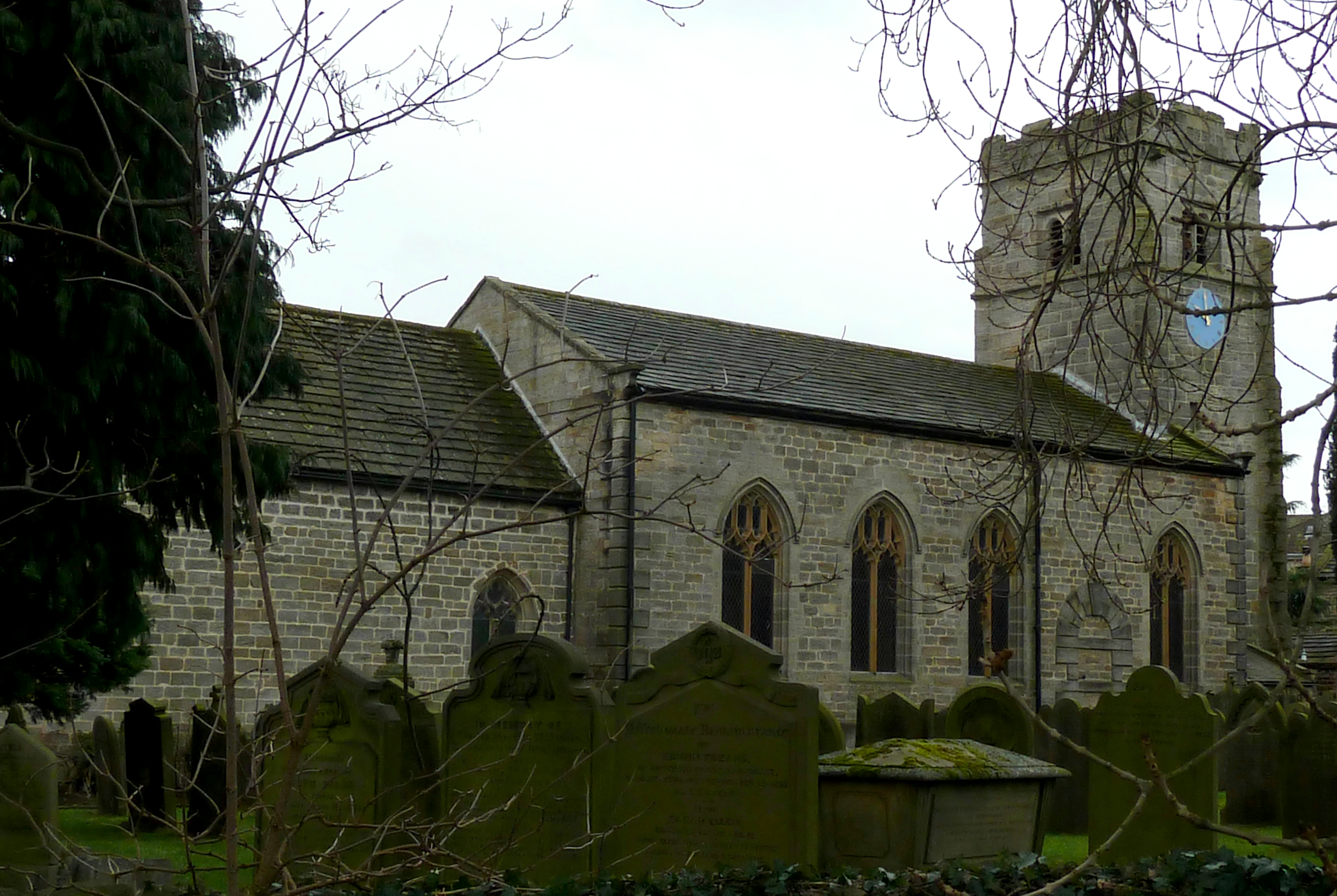 St Roberts Church, Pannal, North Yorkshire, England. View from north-east.